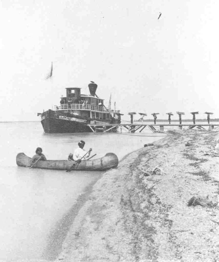 Steamboat Colvile moored at Norway House, Manitoba, about 1880